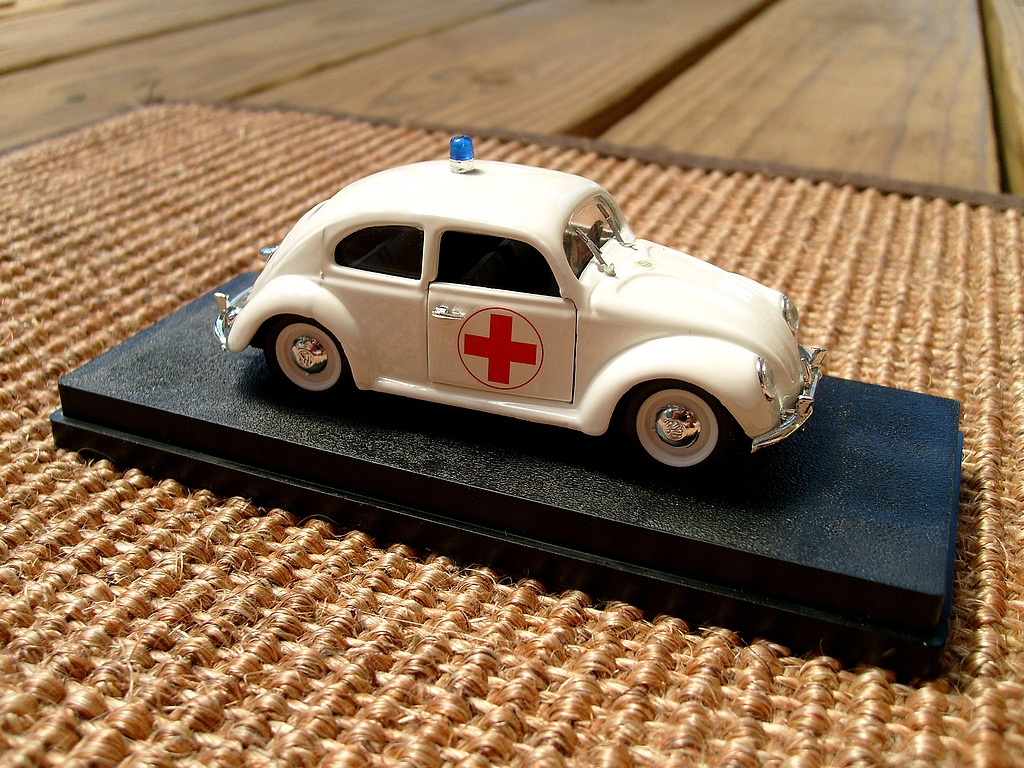 Volkswagen Rescue diecast made in Italy by Rio